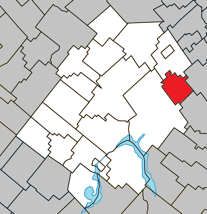 Location of Sainte-Clotilde-de-Beauce, Quebec within Les Appalaches Regional County Municipality.